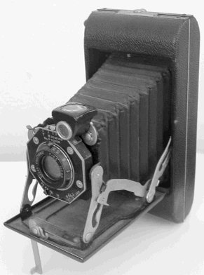 Folding camera, unfolded view Photograph available under GFDL license. I [Ericd] took this picture myself with a digital camera Olympus C-960. The picture was digitally edited. You do not need my permission to reuse it, but you may not claim that you took the photo yourself.